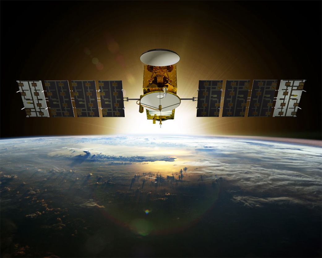 Artist's concept of Jason-3.